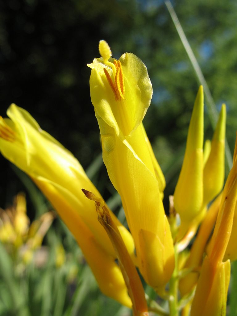 Pitcairnia piepenbringii in cultivation at the Botanical Garden of Heidelberg, Germany.